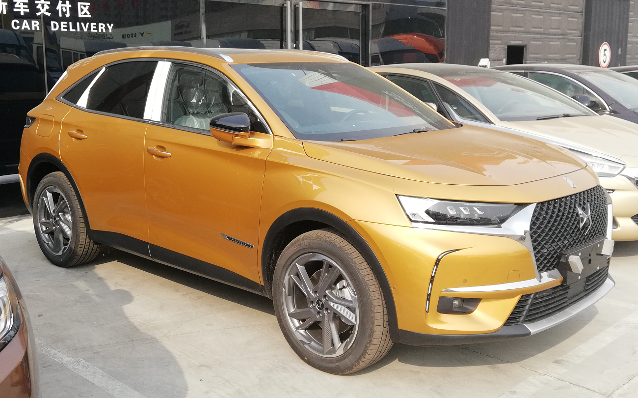 DS 7 Crossback photographed in Beijing, China.